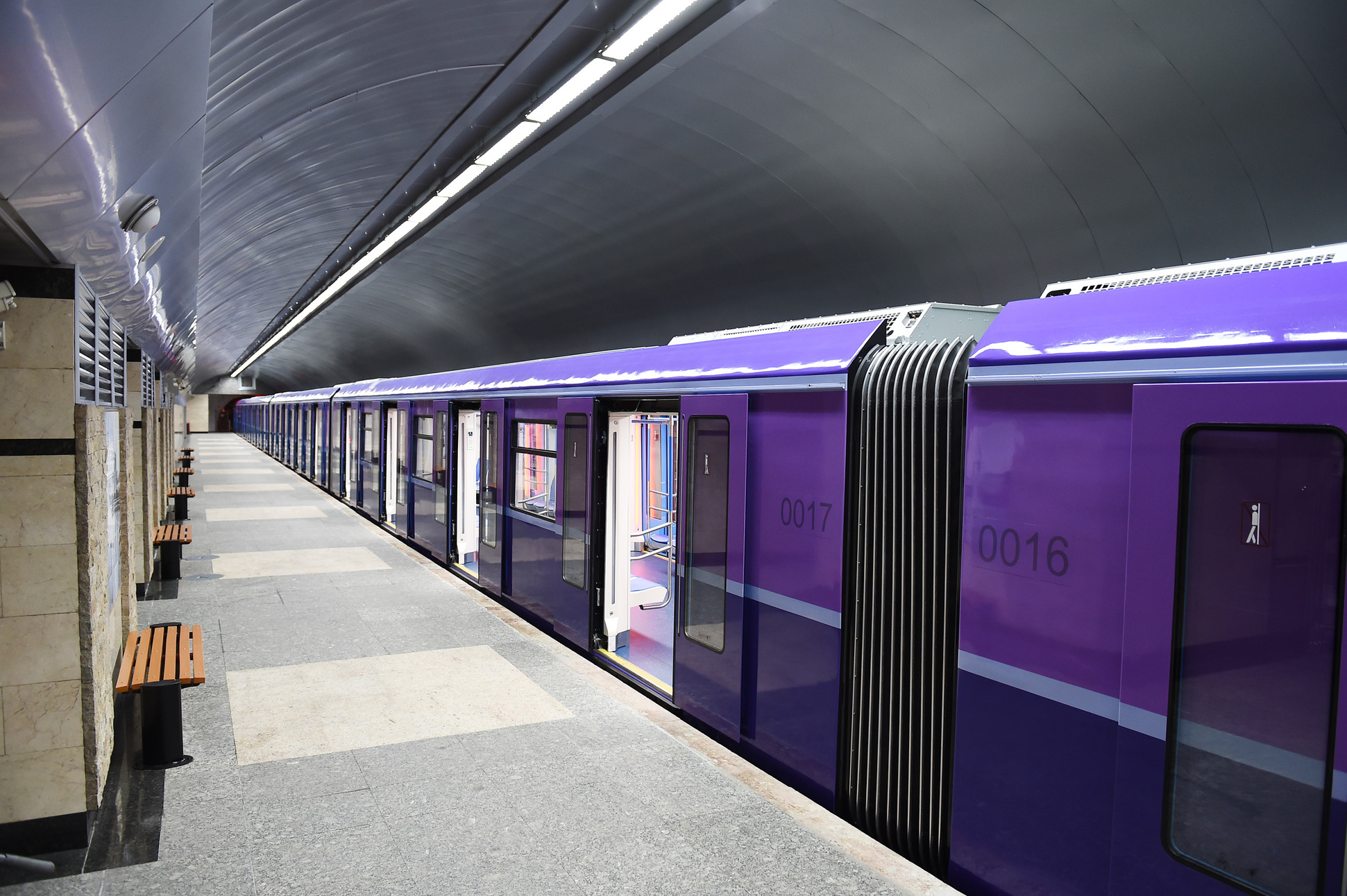 Subway electric train 81-765/766 «Moscow» № 0016—0020 at Icheri Sheher station of Baku Metro (view from side)